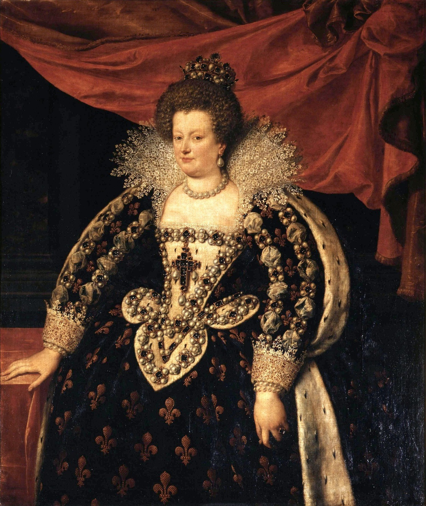 This portrait was commissioned to Frans Pourbus the Younger, Maria de' Medici's court painter, by her aunt, Grand Duchess Christina of Lorraine. A portrait of the reigning king – Louis XIII, Maria's son – of the same dimensions was commissioned too, but wrongly Pourbus painted a matching portrait of Henri IV, the Queen's husband. Because of its high quality, they decided to keep the portrait of the late King. This two versions decorated for years Palazzo Pitti's apartements, where they still are; two other versions in 1613 for the «series of the most serene princes», now called «serie aulica», a collection of portraits of the most important members of the House of Medici (placed at Uffizi Gallery's corridors)